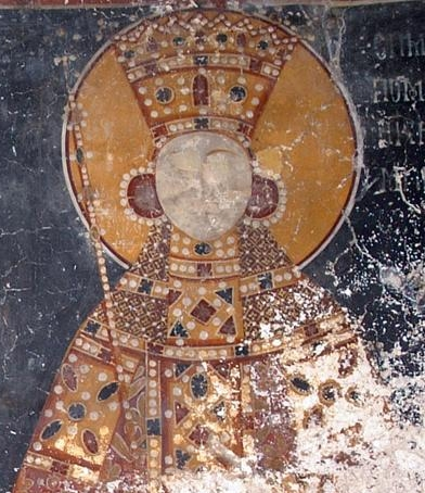 The fresco of queen Simonida, King`s Church in Studenica, Serbia